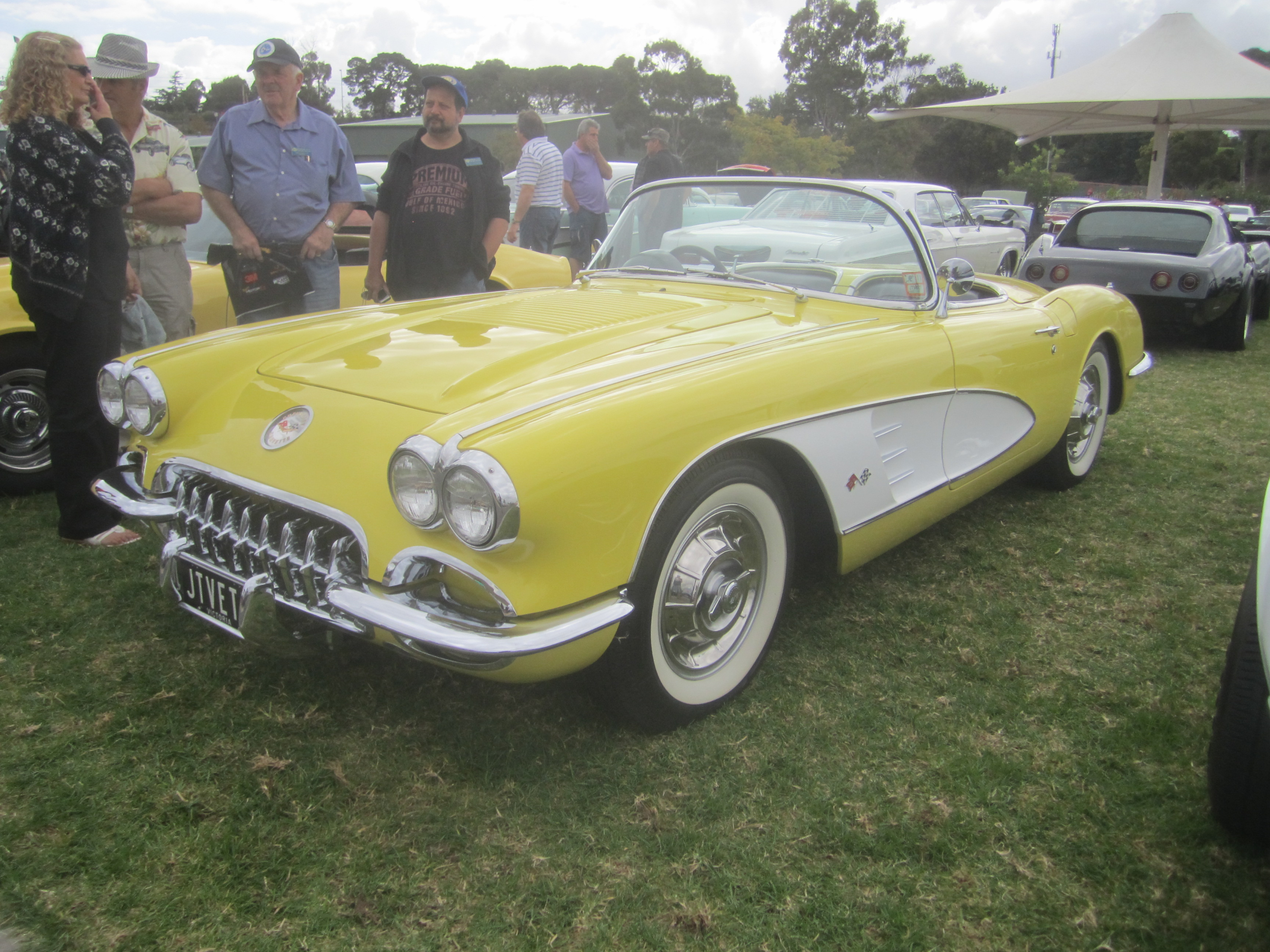 The C1 Corvette was built from 1953-1962, only available as a 2 door Roadster with solid axle suspension. 1958 saw an update, now with 4 headlights and an updated interior. Unique to 1958 was the hood with simulated louvres and chrome tail spears. Engine; 283 cu in V8